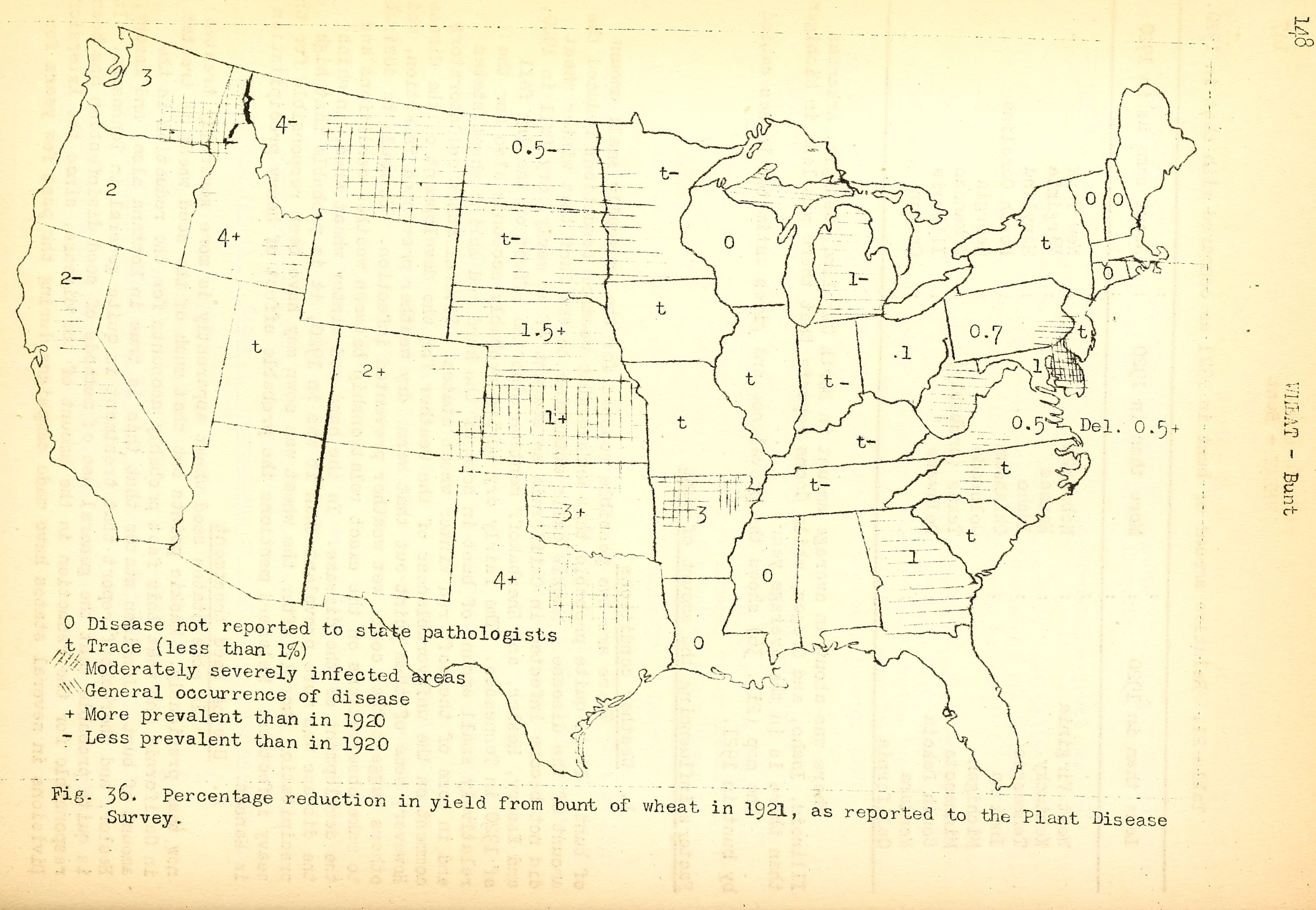 Title: Diseases of cereal and forage crops in the United States in 1921 Year: 1922 (1920s) Authors: Stakman, E. C. (Elvin Charles), 1885-1979; United States. Plant Disease Survey Subjects: Grain Diseases and pests United States; Forage plants Diseases and pests United States Publisher: (Washington, D. C. ) : Plant Disease Survey, Bureau of Plant Industry, United States Department of Agriculture Text Appearing Before Image: ' Text Appearing After Image: '